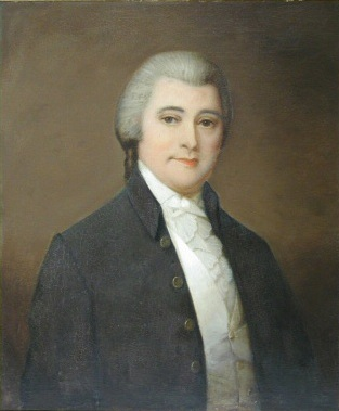 Portrait of American statesman William Blount.